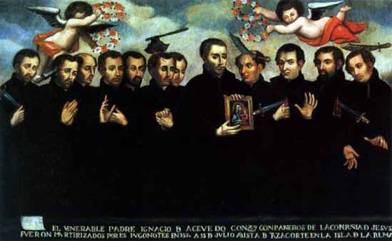 Blessed Martyrs of Brazil, or from Tazaconte, 18th cent. painting at Museo Diocesano de Arte Sacro de la Catedral de Las Palmas